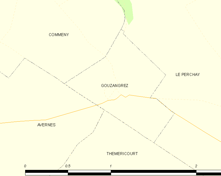 Map of French municipality Gouzangrez